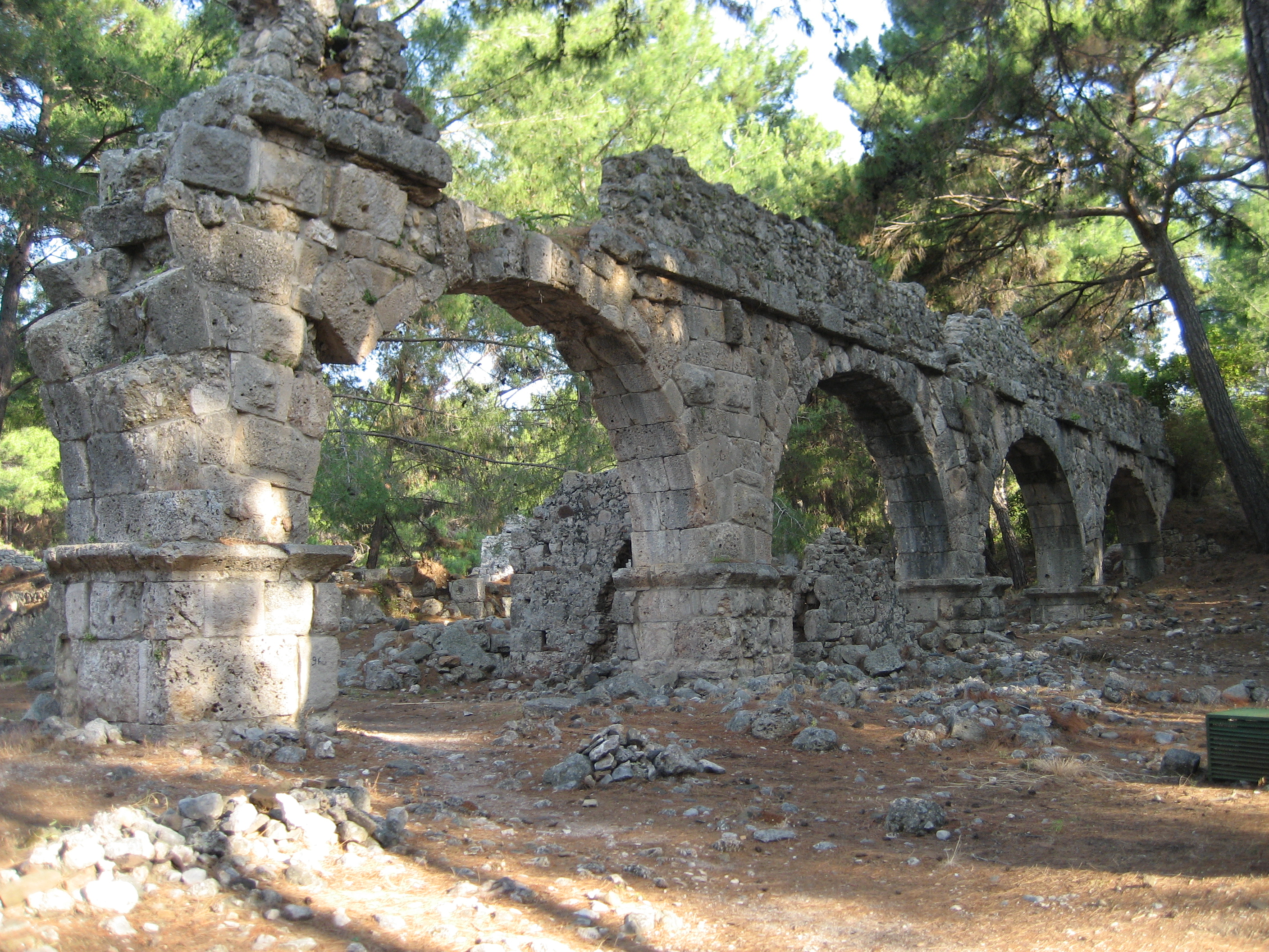 Aquaduct